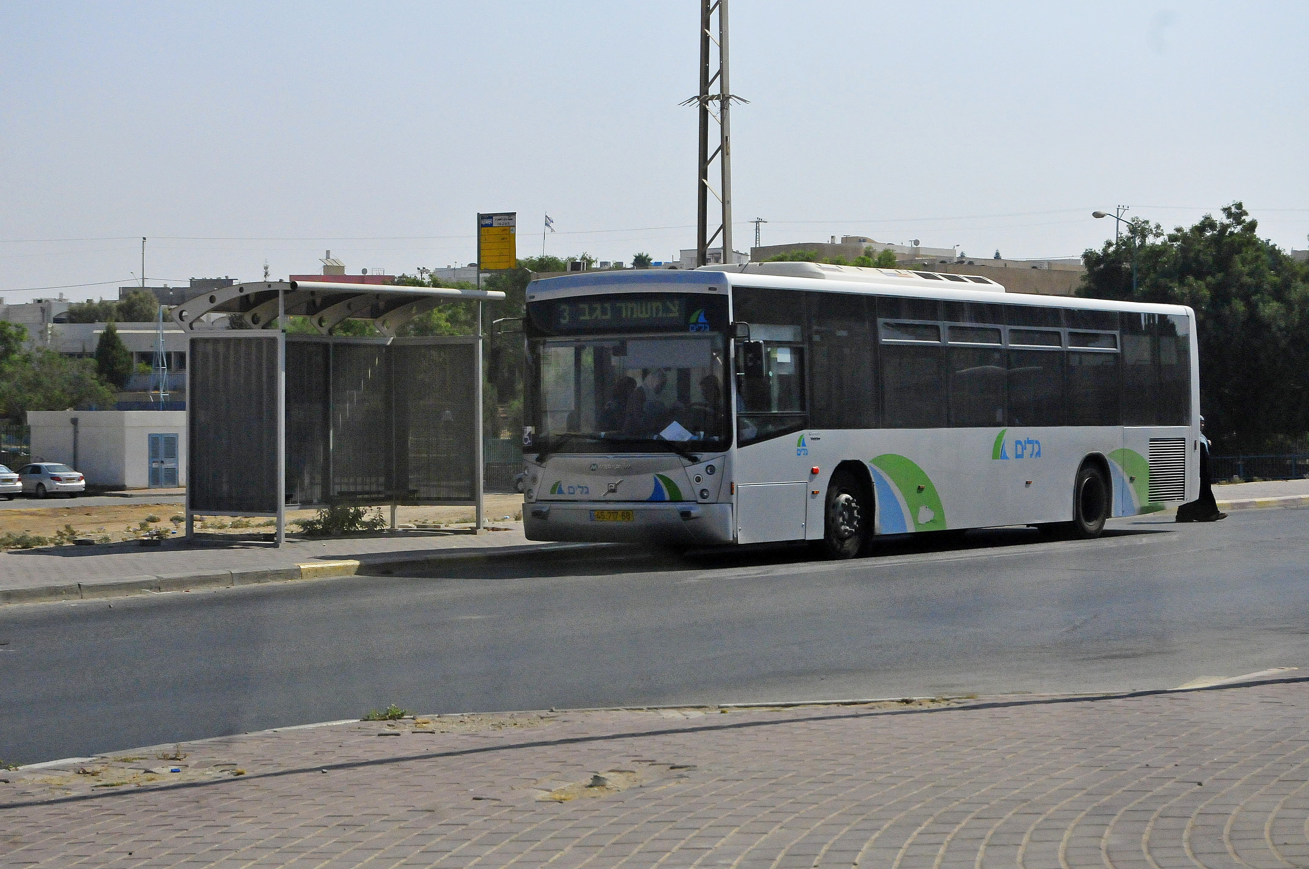 A public bus transportation in Rahat